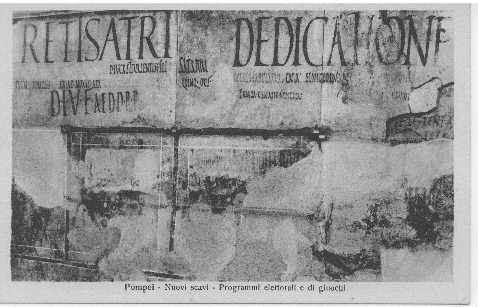 postcard ca. 1920-1923. House of Aulus Trebius Valens